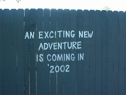 Teaser